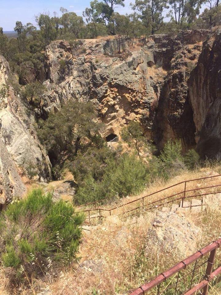 A photo of the former Open-Cut Balaclava Mine, located in Whroo.